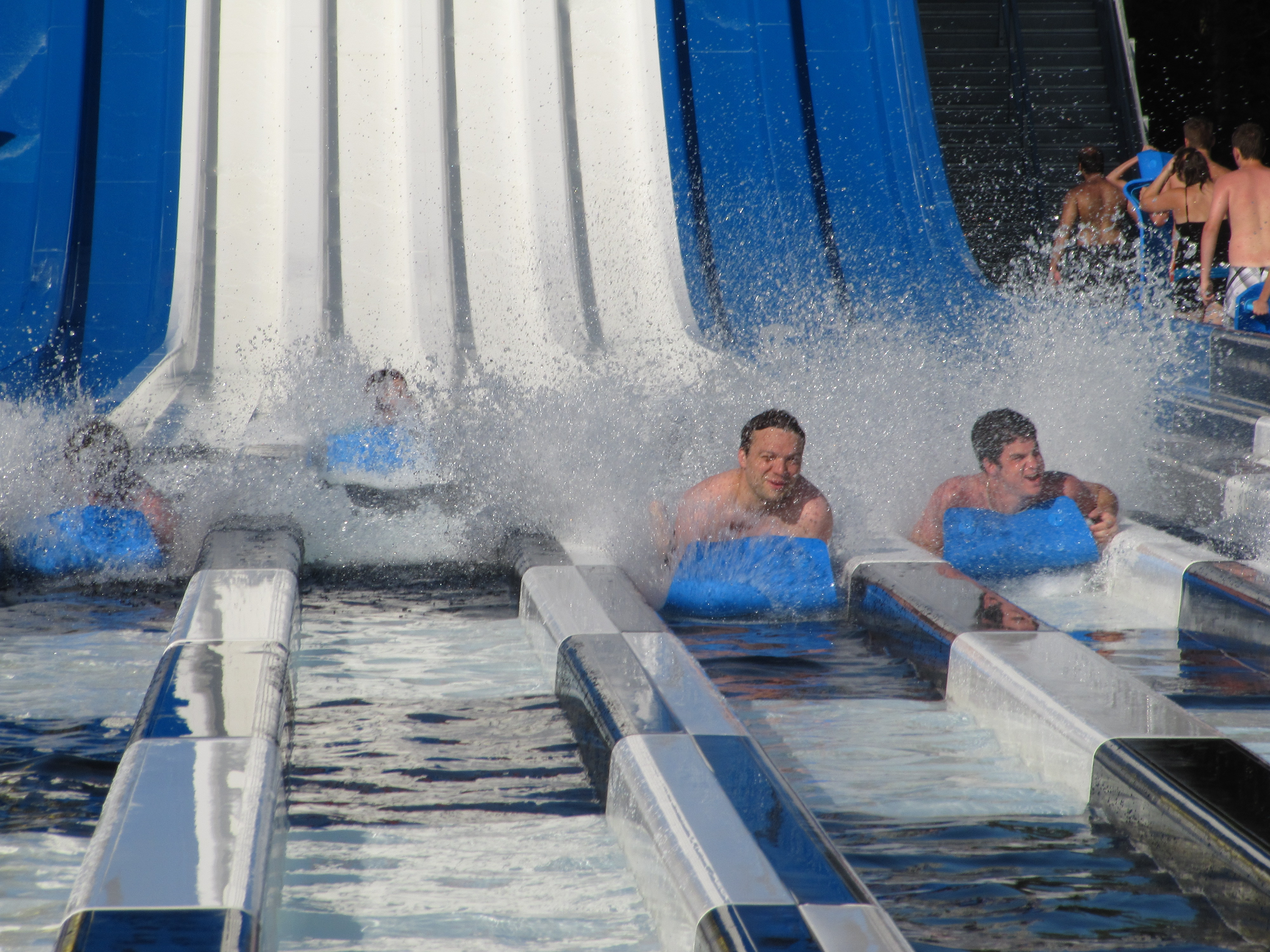 Super, rubber, blue slugs mind at the Calypso Waterslide Park.